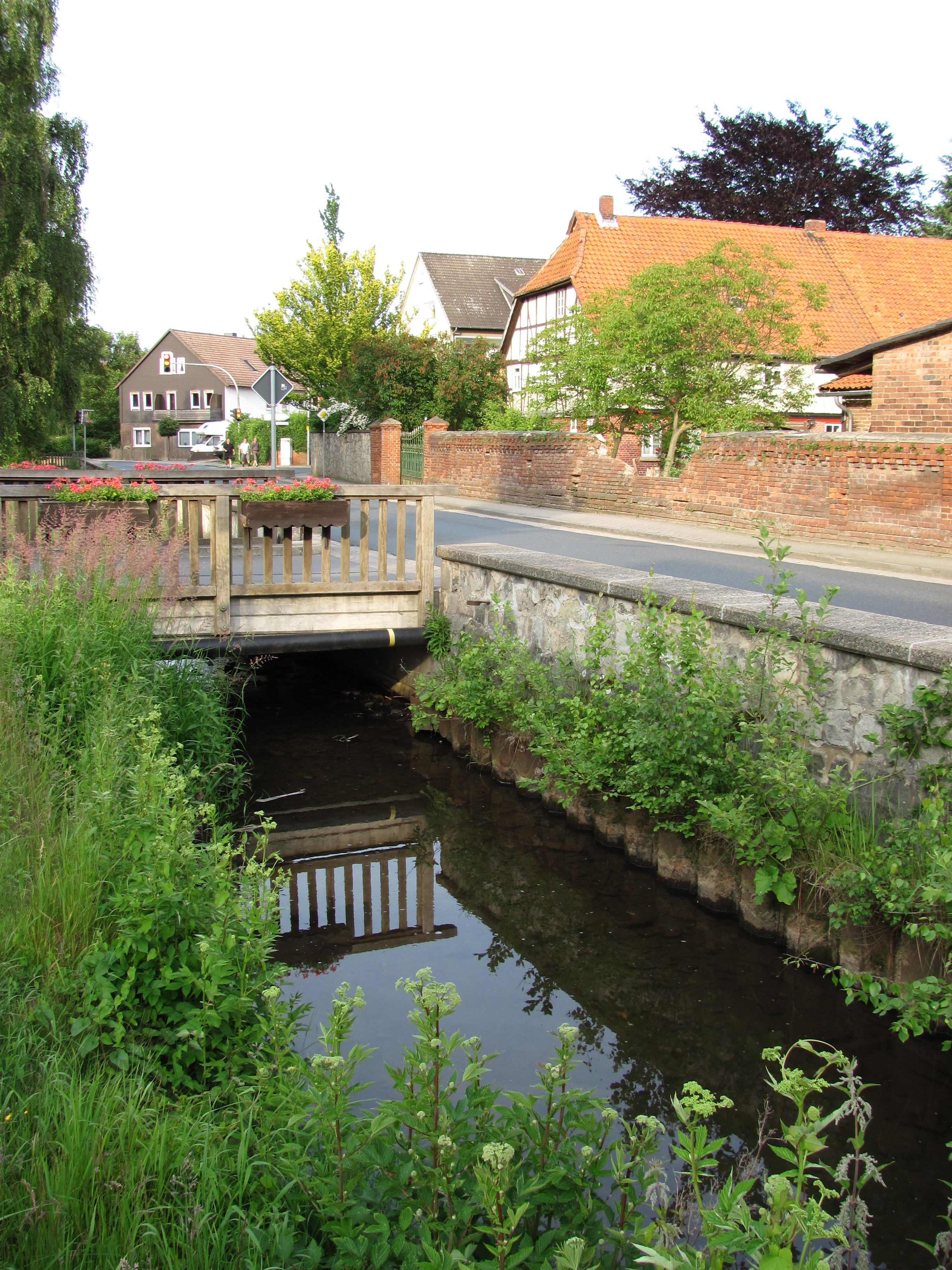 River Beuster in Diekholzen, Germany.